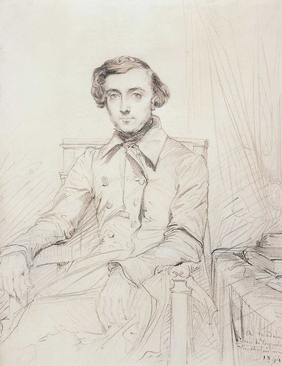 Dimensions and material of painting: Graphite, 30.5 x 23.5 cm